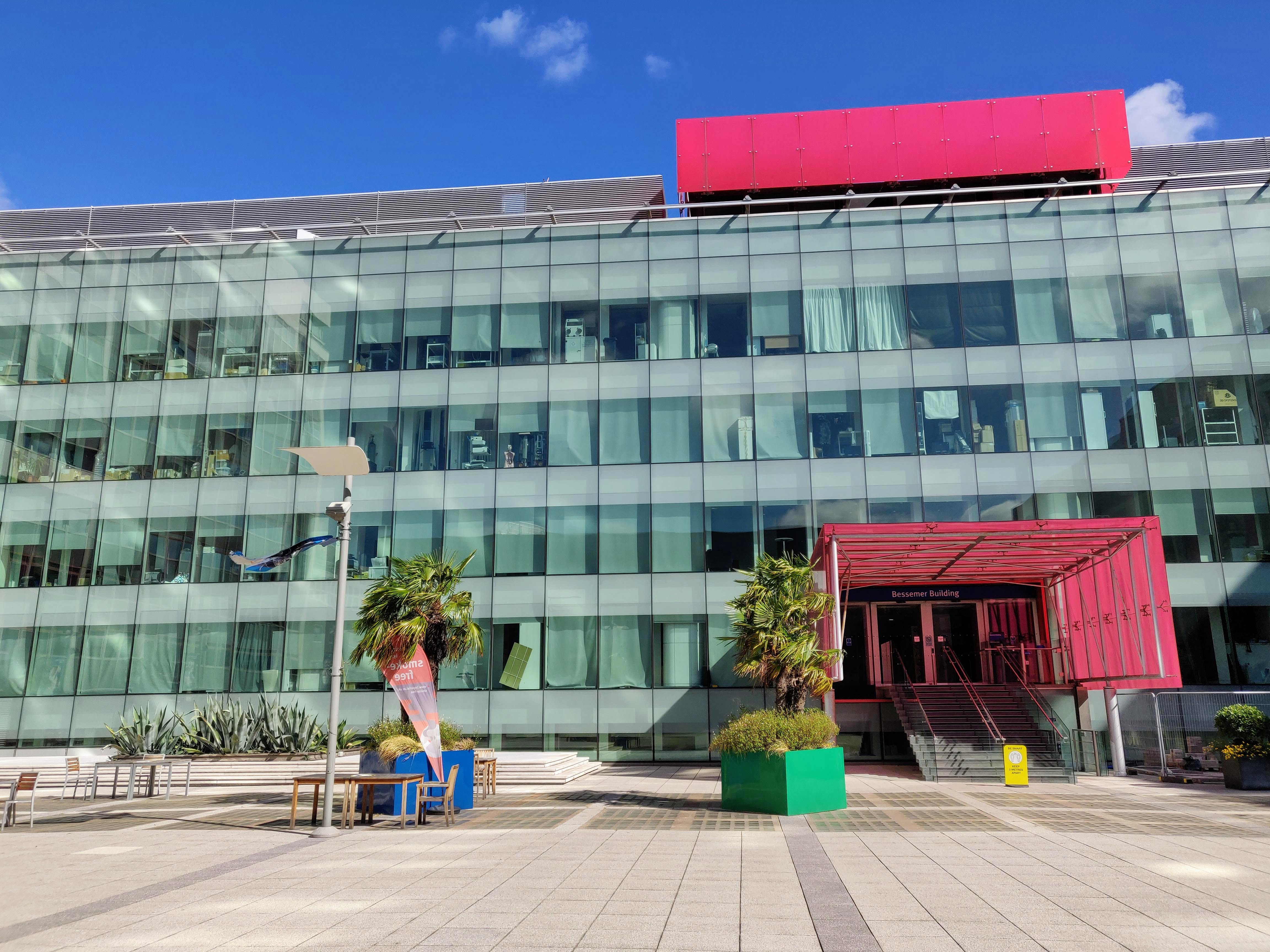 The Bessemer Building forms the north side of Dalby Court, and is home to the Department of Bioengineering.